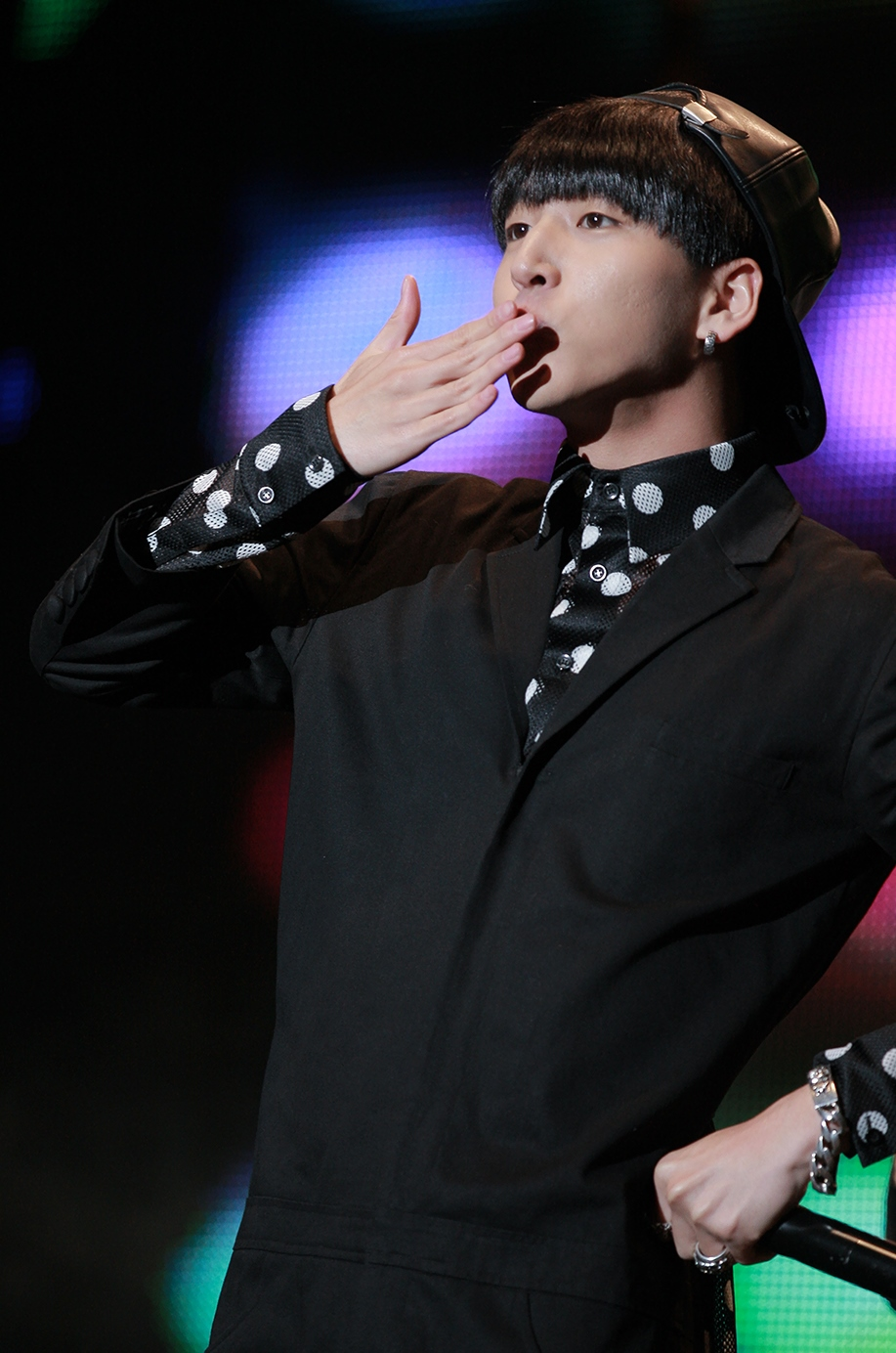 Baro at the Yongsan I-Park Mall em November 2, 2013.